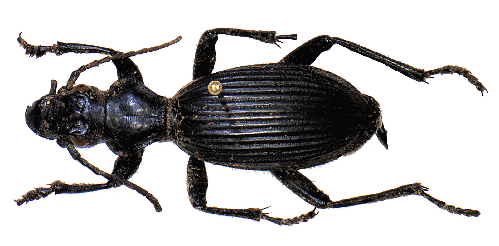 A large African carabid beetle, Tefflus zebulianus reichardi Kolbe, 1886, collected in the Congo: Shaba, Sep. 1985.